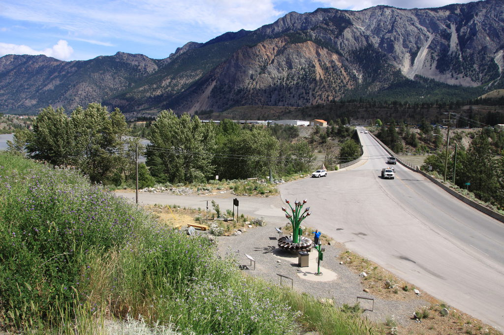 Trip to Lytton and Lillooet, June 1-3, 2018. 23 Camel Bridge, Lillooet.